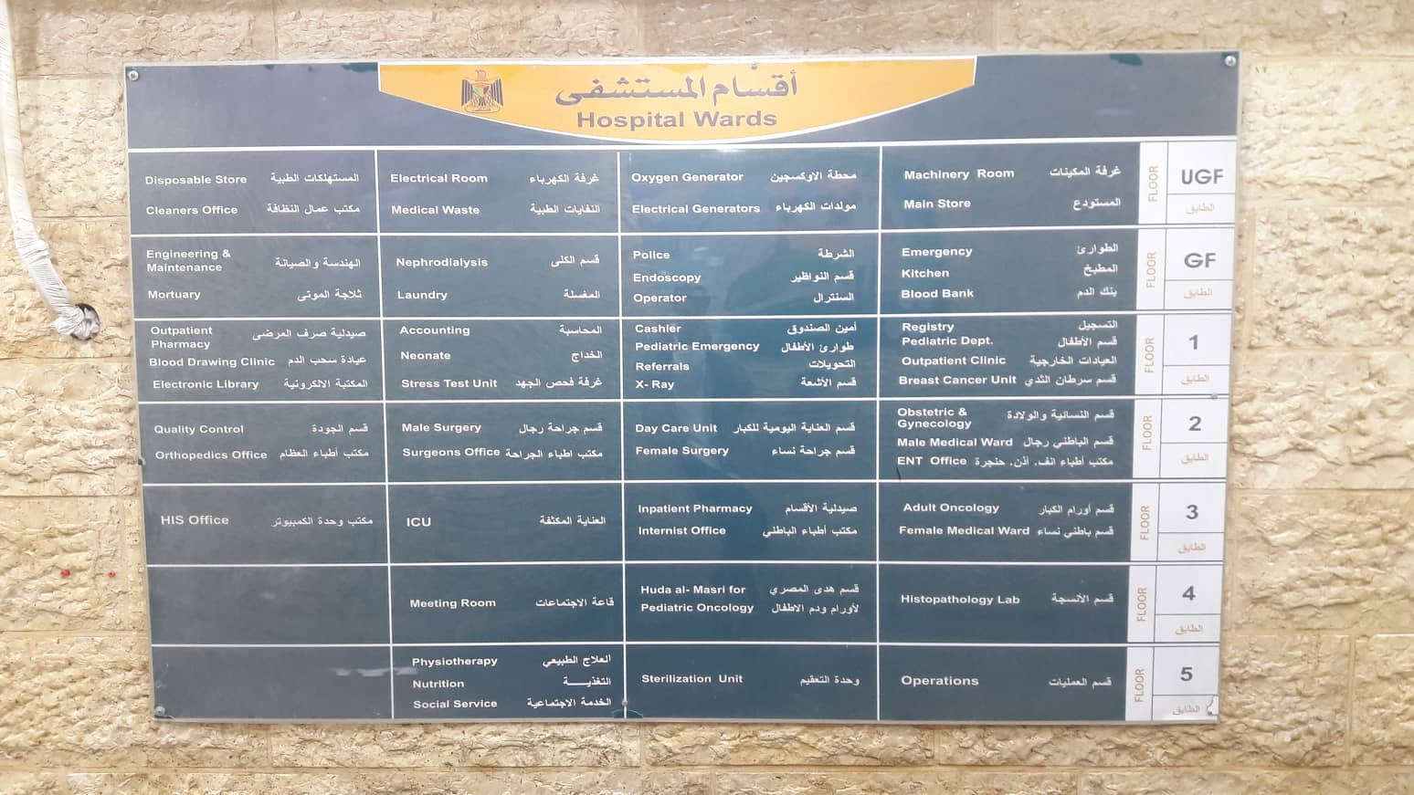 A guide board for the departments of Beit Jala Governmental Hospital